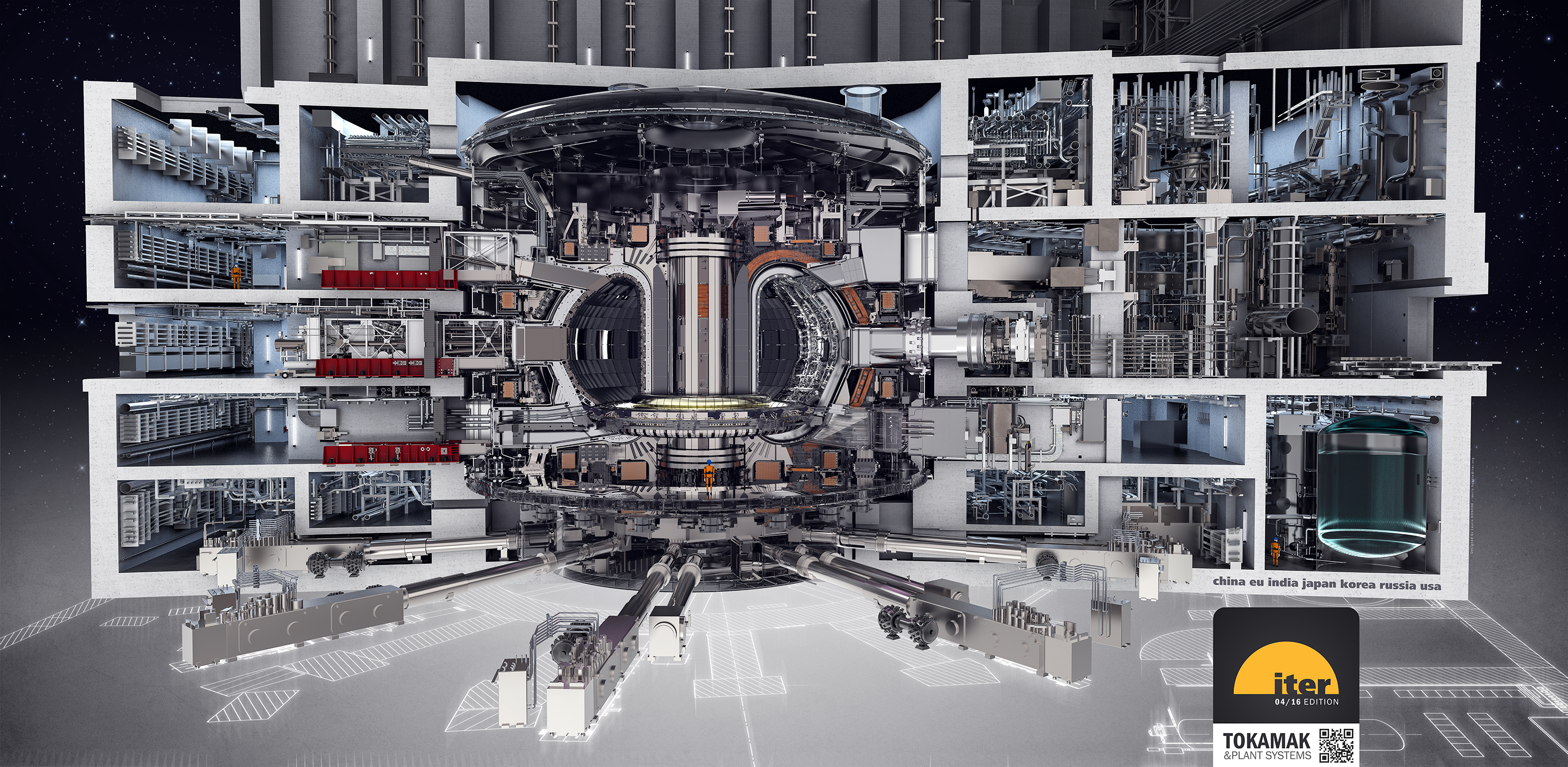 A drawing of the ITER tokamak and integrated plant systems shows the complexity of the ITER facility now under construction in France.